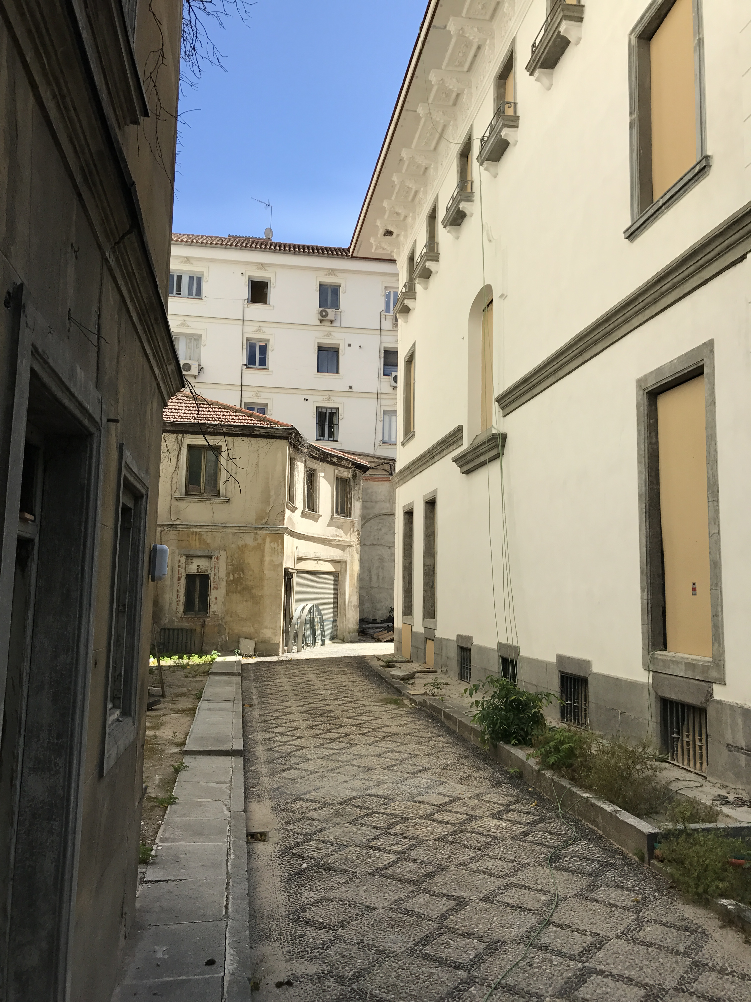 Mansion at 18 Calle de Villanueva (street) in Salamanca district in Madrid (Spain). Promoted by the Marquis of Salamananca as the standard residence for the Ensanche. It was designed by Cristóbal Lecumberri and buit between 1865 and 1870.